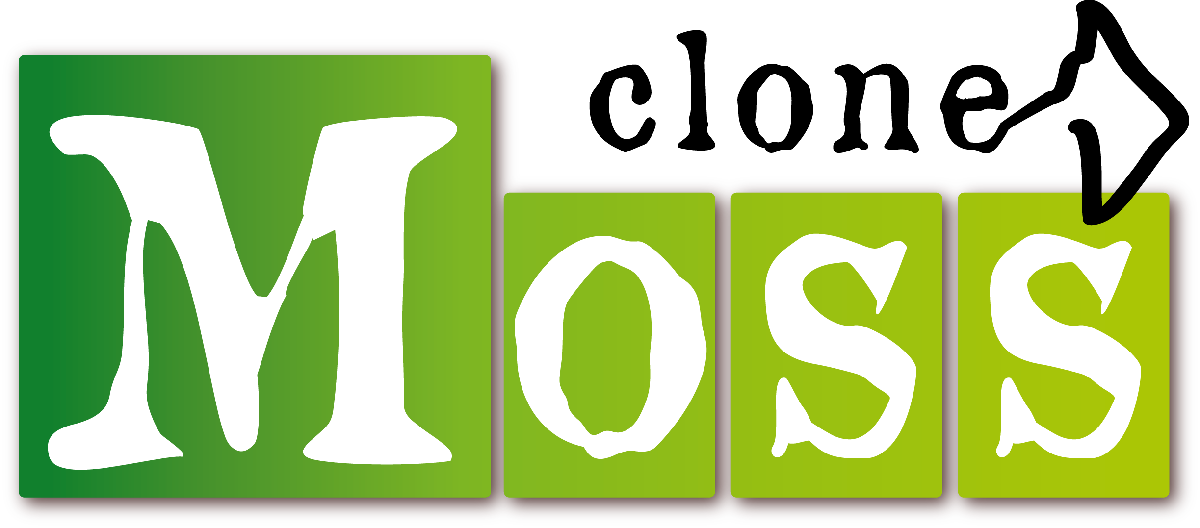 Mossclone logo